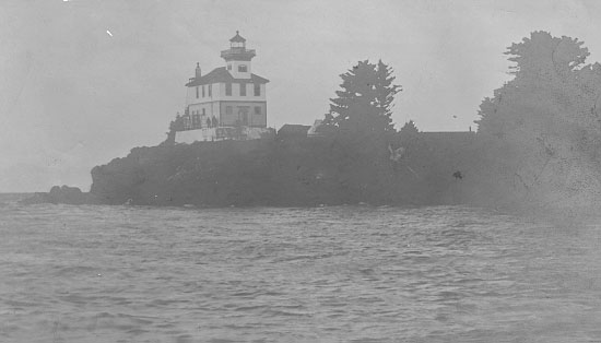 Public Domain statement here; Original 1902 Five Finger Islands Light